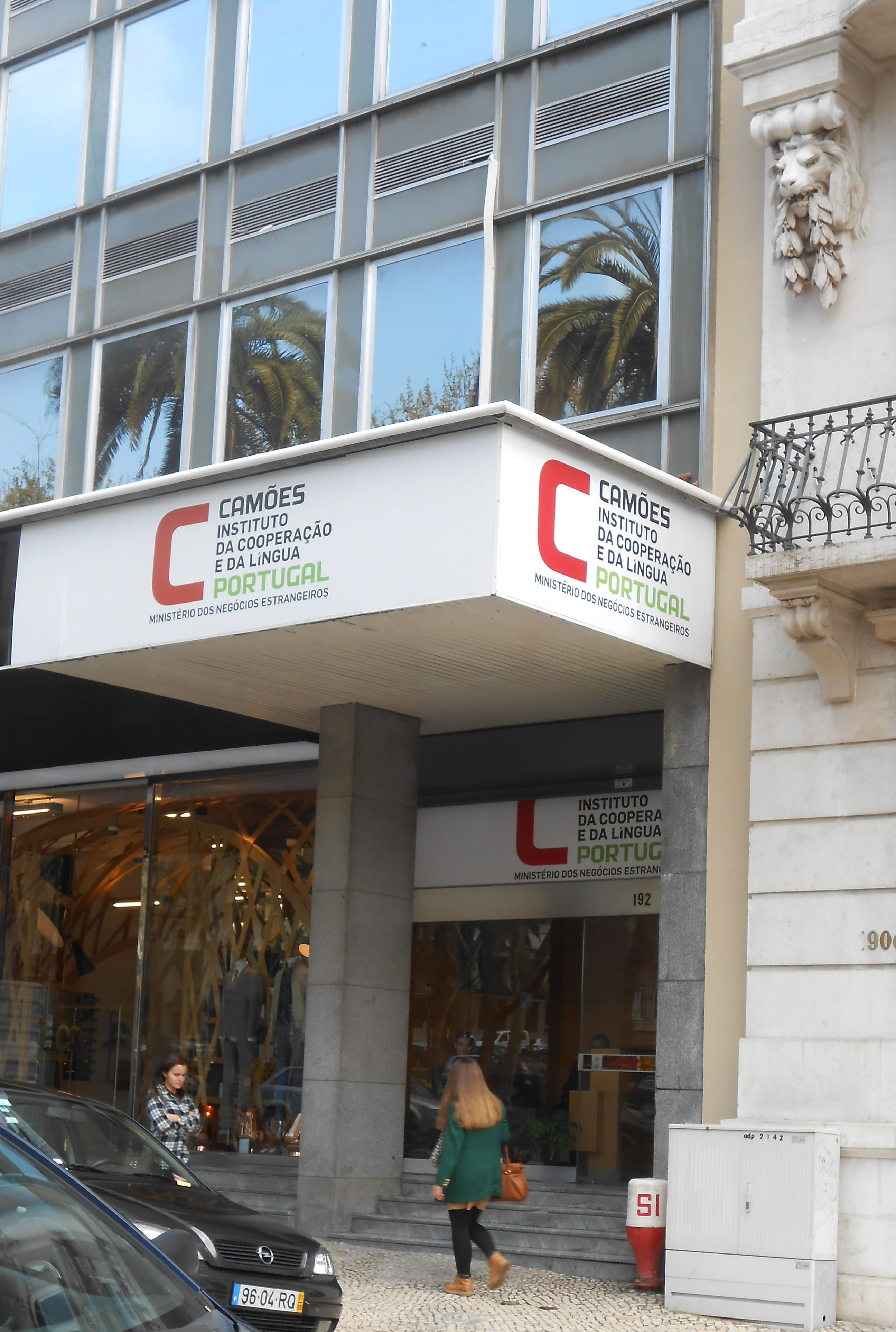 Entry to the Instituto Camões on the Avenida da Liberdade in Lisbon.